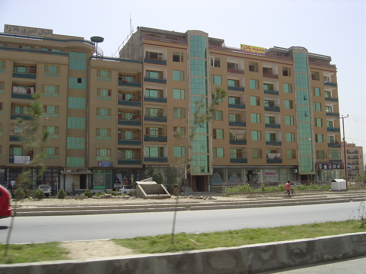 New style apartment buildings in Kabul